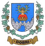 Coat of arms of Dobri, Hungary